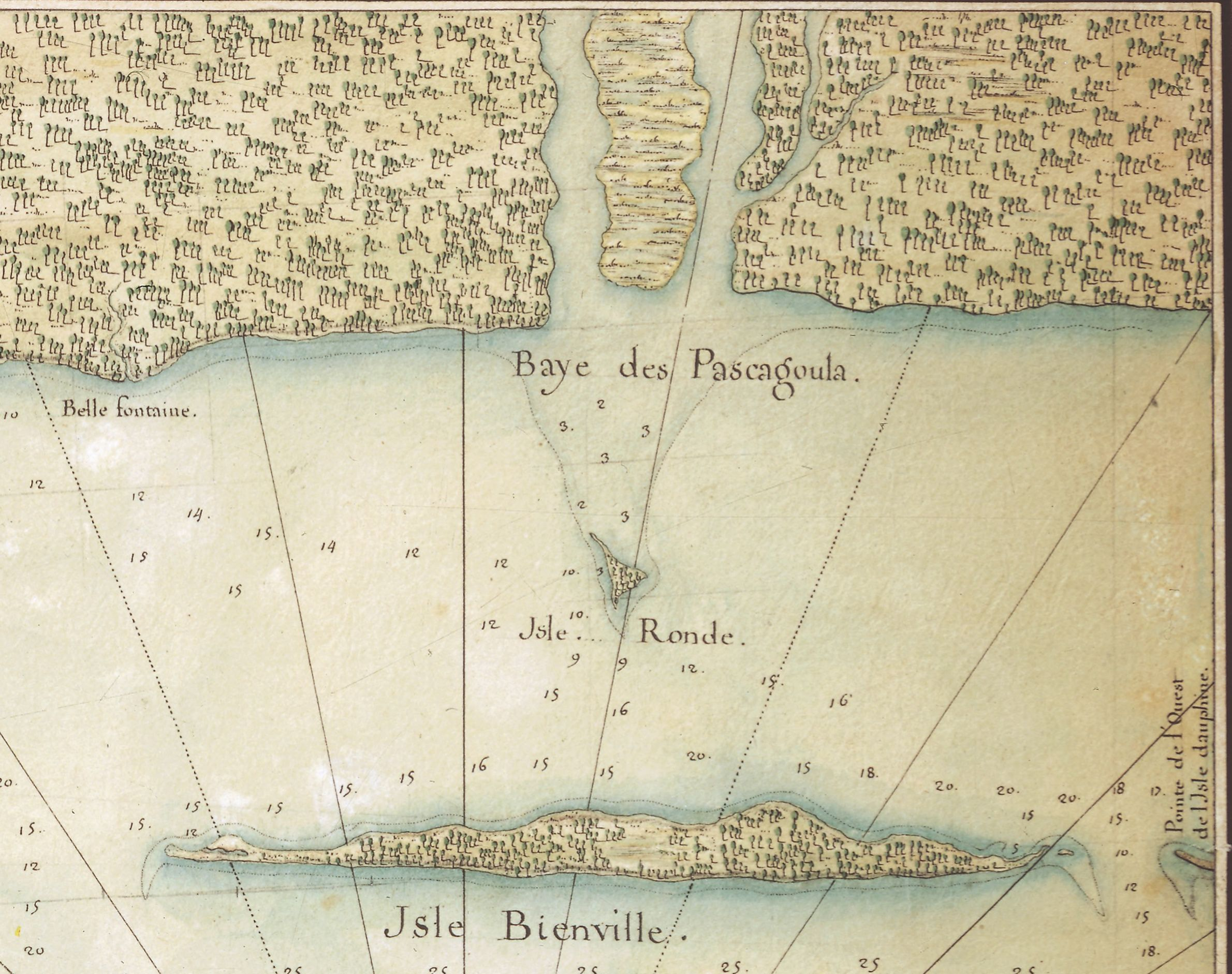 Map of the new Biloxy Coast, french 18th century map. Zoom on Pascagoula Bay.